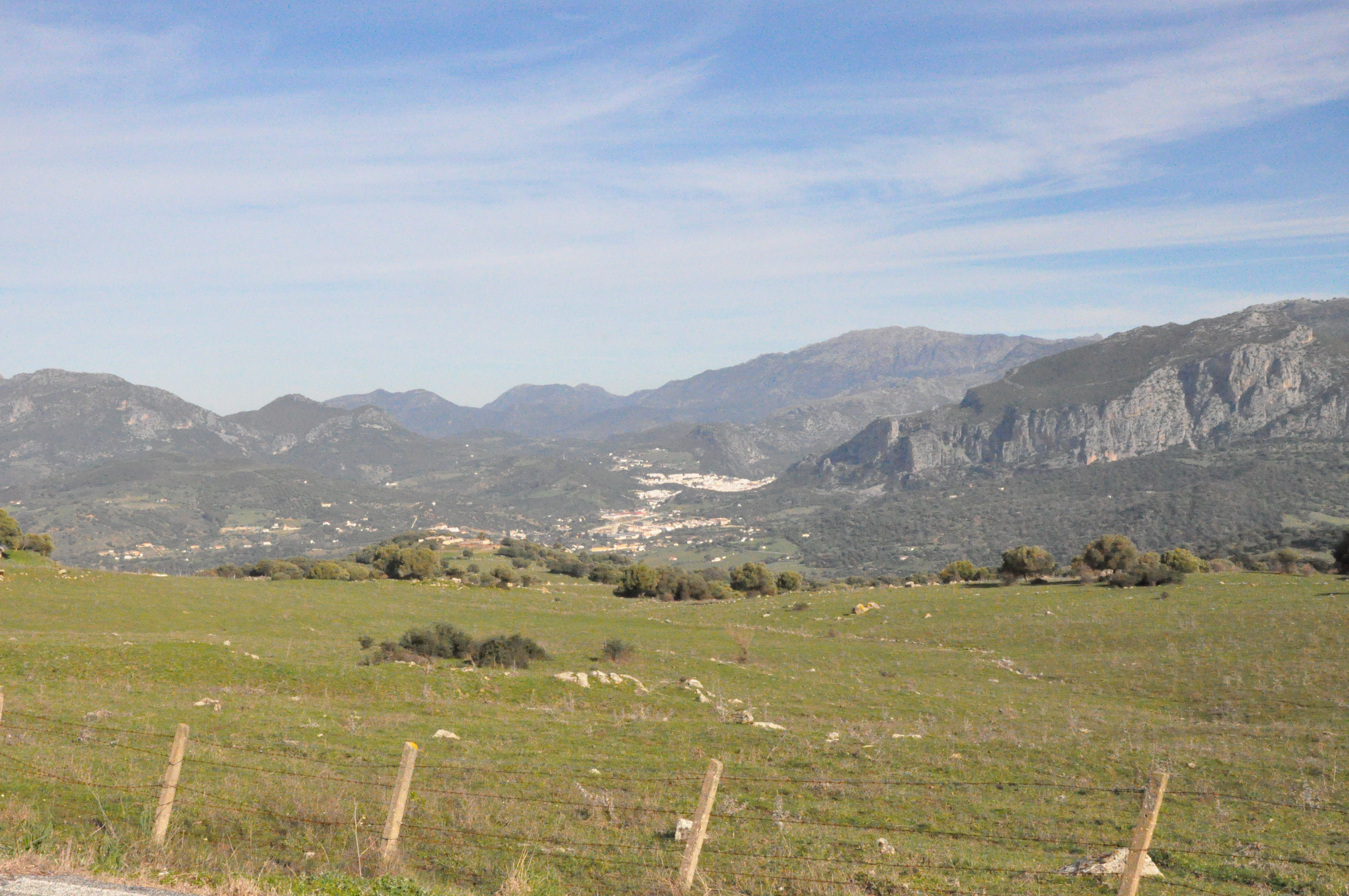 View of Ubrique. Taken near Puerto Galiz (in the road to Cortes). Andalusia (Spain)